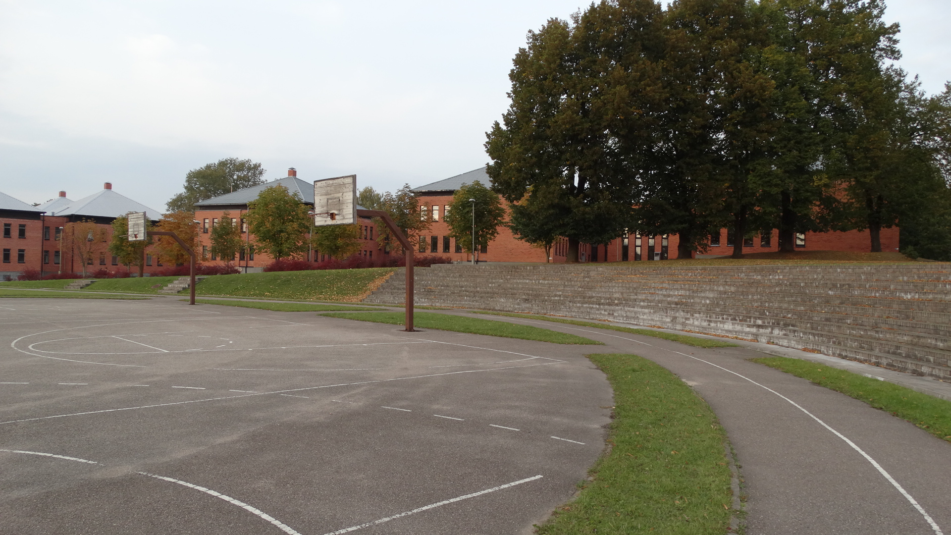 Saint Benedict Gymnasium, Alytus, Lithuania